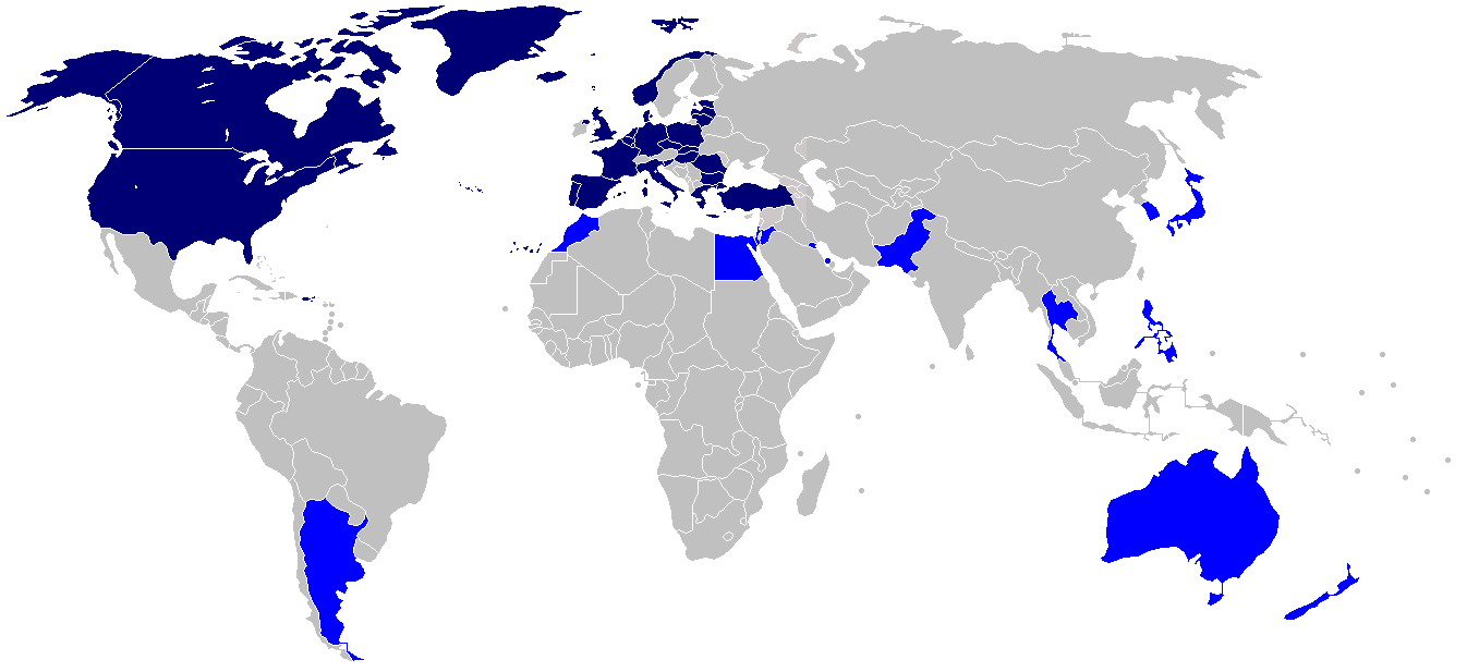 Map of NATO membership, and also "Major non-NATO allies" of the United states...